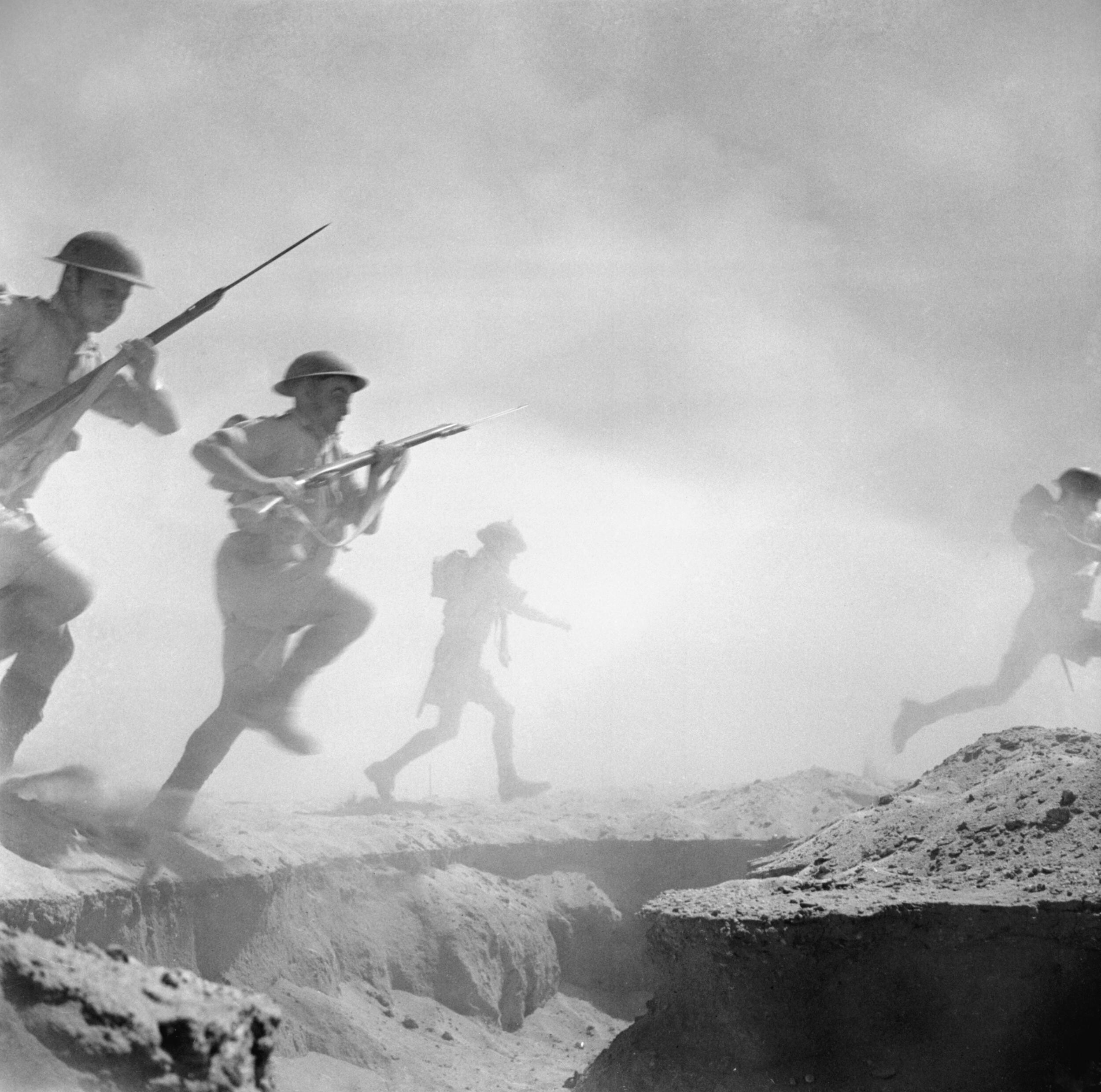 El Alamein 1942: British infantry advances through the dust and smoke of the battle.